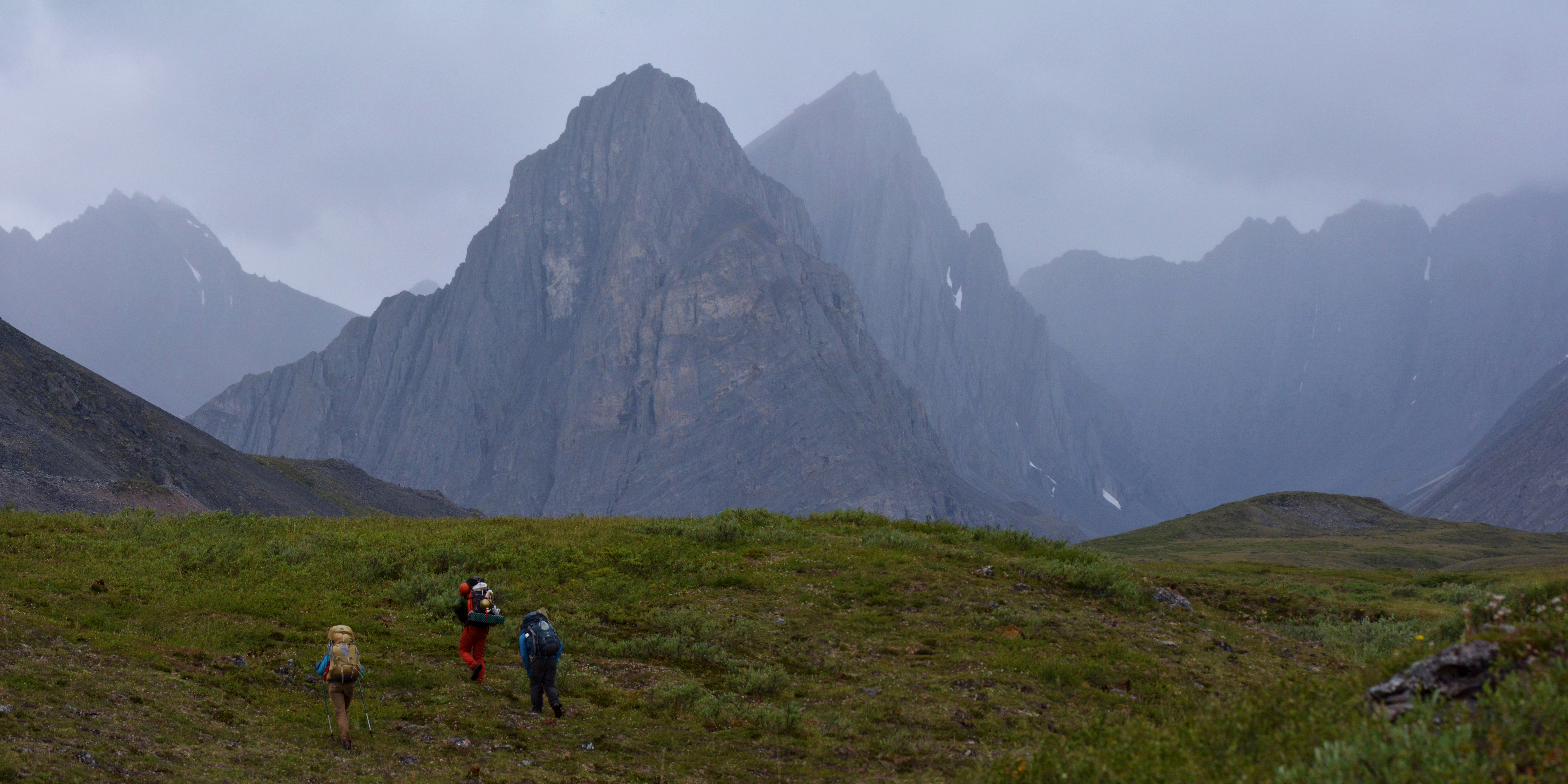 Thunder Valley, a remote part of the Brooks Range surrounded by pinnacles of tilted and twisted sedimentary rock.